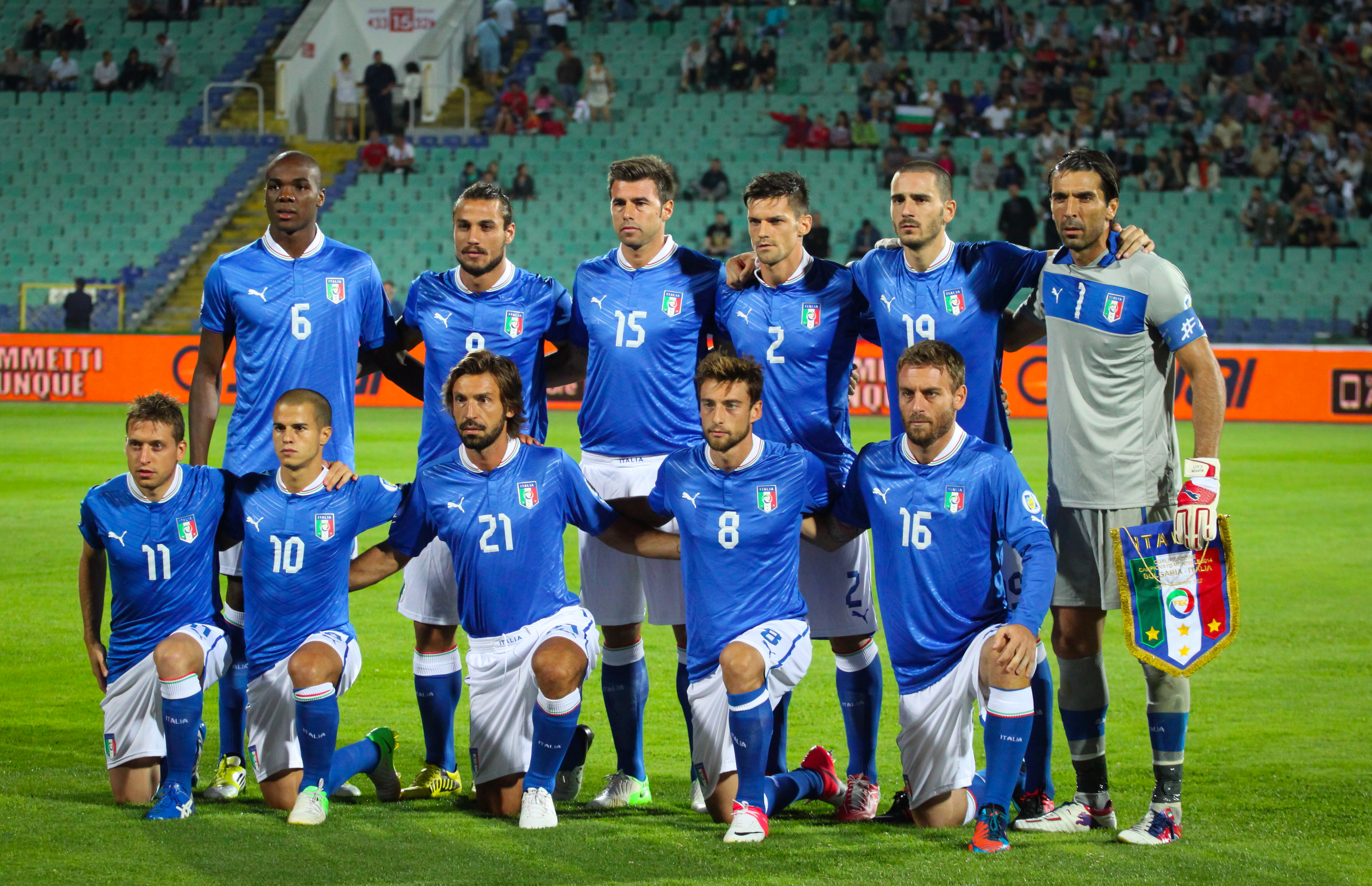 The national football team of Italy before the football game with Bulgaria, "Vasil Levski" stadium, Sofia, Bulgaria, September 7, 2012